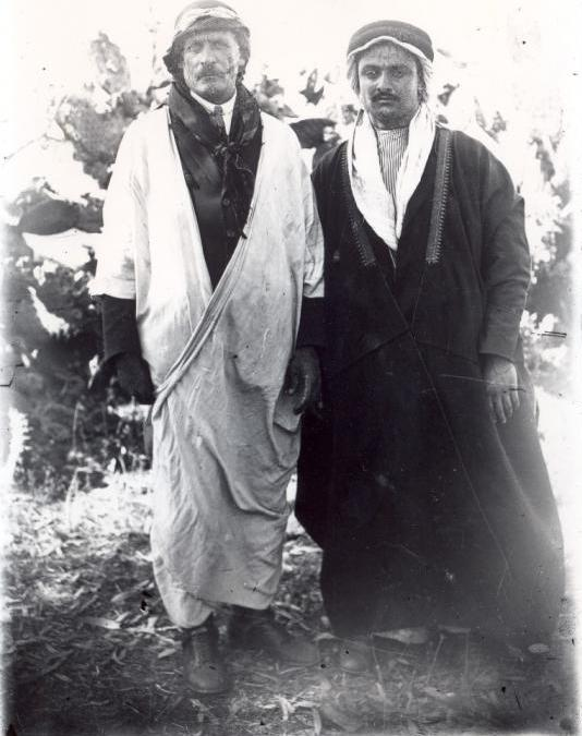 Oded Yarkoni Archives of Petach Tikva City